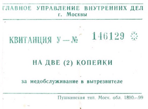 Vytrezvitel medical care check, Moscow, 1980s